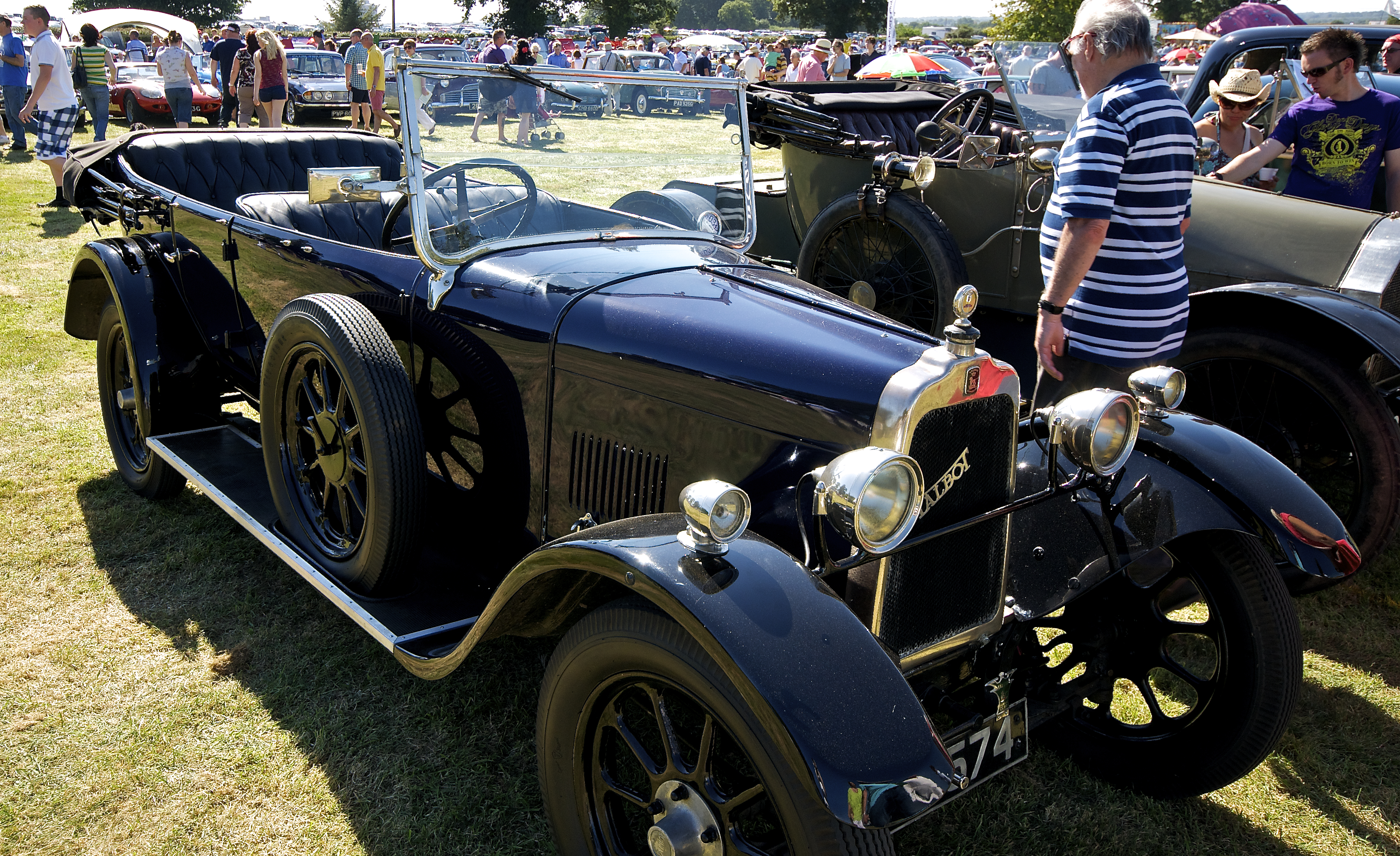 Talbot 10/23 tourer circa 1925